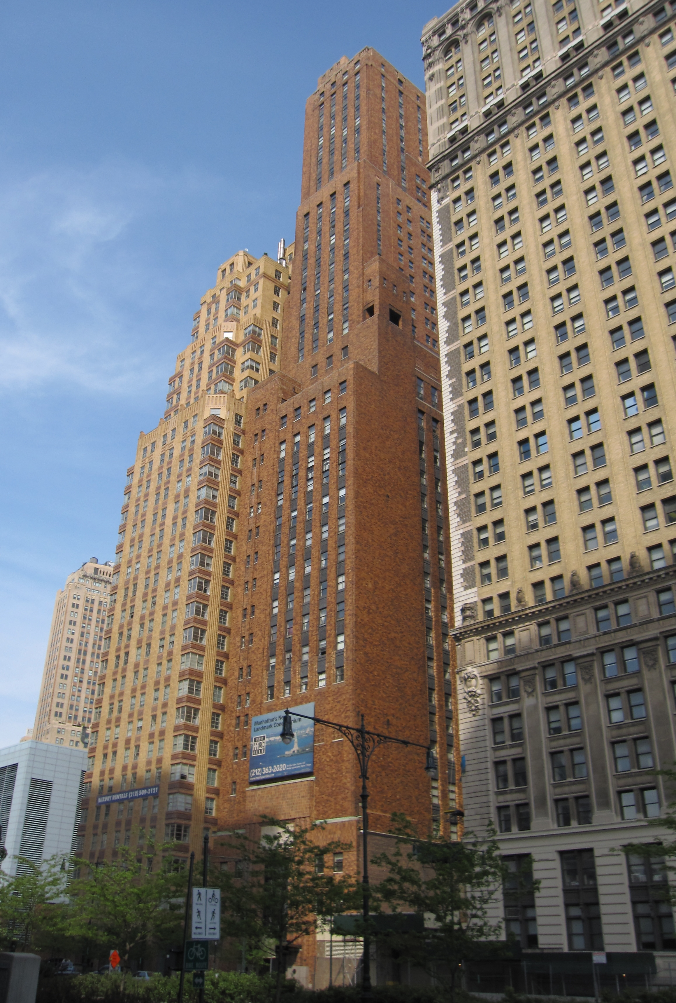 20 and 21 West Street in Manhattan. (Once home of the former Downtown Athletic Club that awarded the Heisman Trophy)